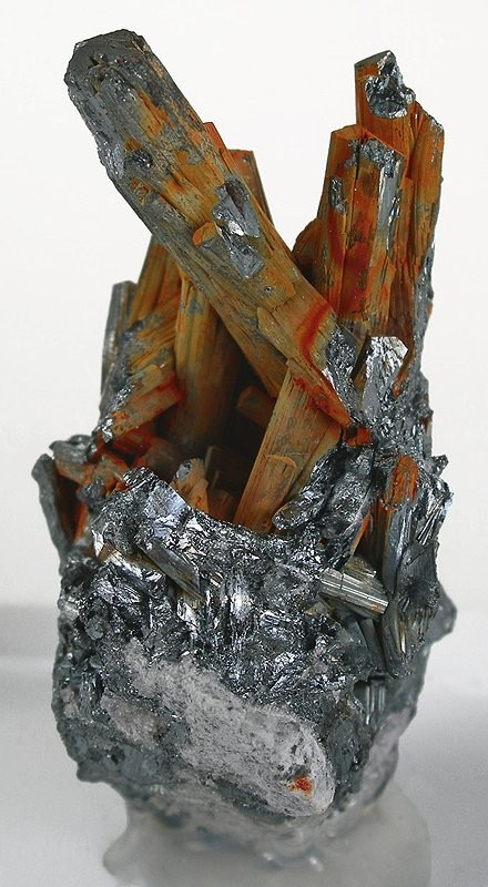 Ottensite, Stibnite Locality: Qinglong (Dachang) Sb-Au deposit, Qinglong County, Qianxi'nan Autonomous Prefecture, Guizhou Province, China (Locality at ) Size: 5.2 x 3.0 x 2.9 cm. An exceptionally rich specimen coated liberally with the new mineral species Ottensite, from its type locality. This specimen was obtained in trade from one of the authors of the paper describing this new species, Dr. Marcus Origlieri. It is, as far as these go, quite aesthetic.